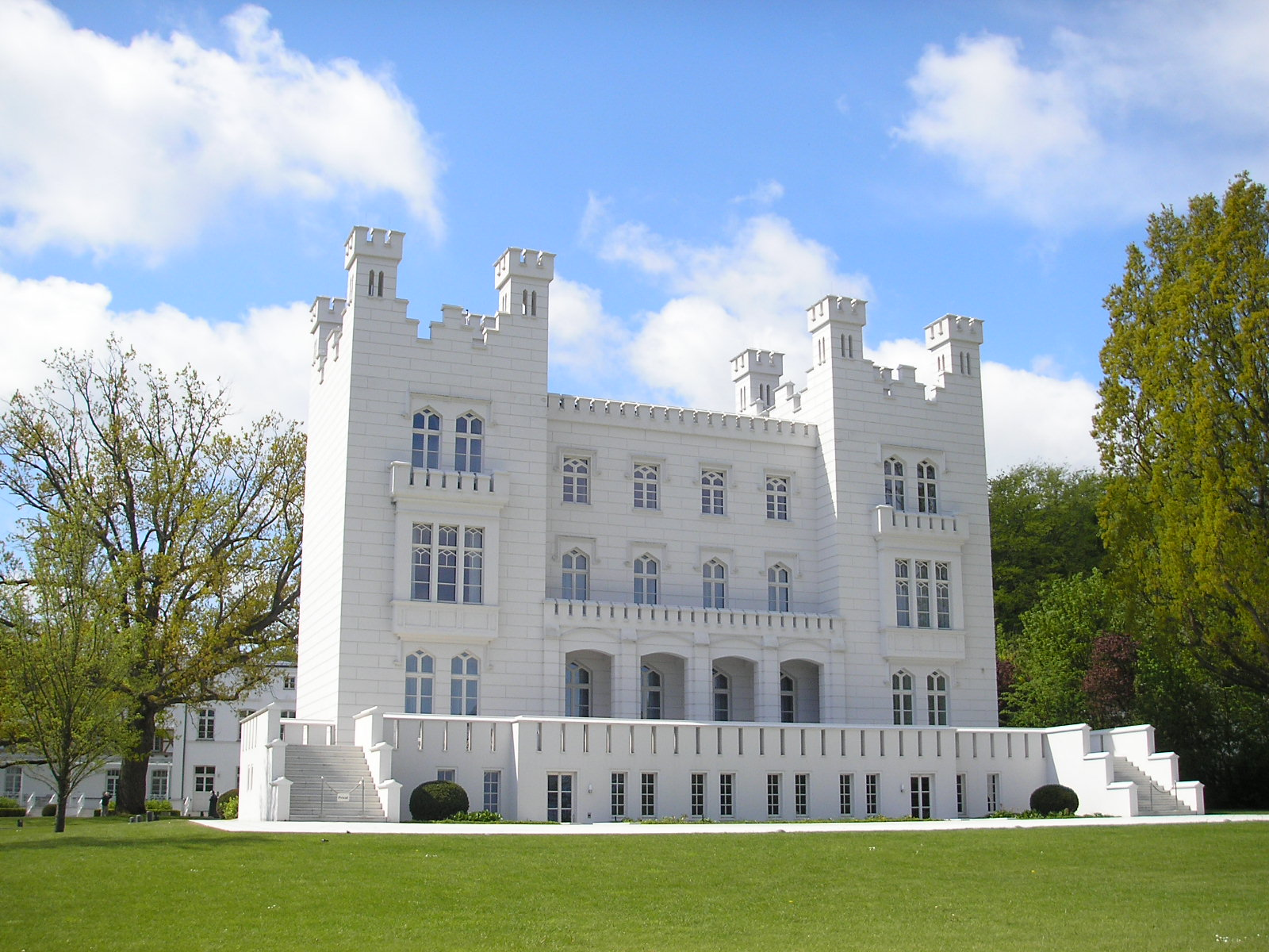 So-called "Burg Hohenzollern" at the spa complex of Heiligendamm. Used today by the Hotel Kempinski.